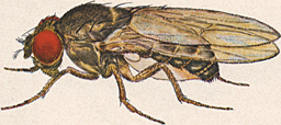 Drosophila pseudoobscura Adult Male